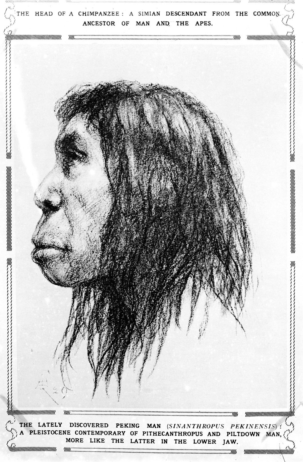 Illustration of Peking Man (Sinanthropus Pekinensis). From the Sphere. Wellcome Images Keywords: Prehistory